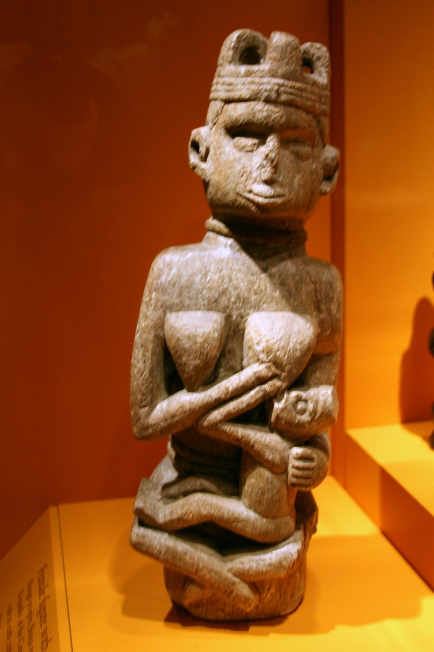 Female figure with child, Kongo peoples, Boma region, Democratic Republic of the Congo, 19th to early 20th century, Stone Before the 1920s, male and female figures carved in stone served as Kongo funerary monuments commemorating the accomplishments of the deceased. The mother and child was a common theme representing a woman who has saved her family line from extinction. Kongo mortuary figures are noted for their seated postures, expressive gestures and details of jewelry and headwear that indicate the deceased's status. The leopard claw hat is worn by male rulers and women acting as regents.